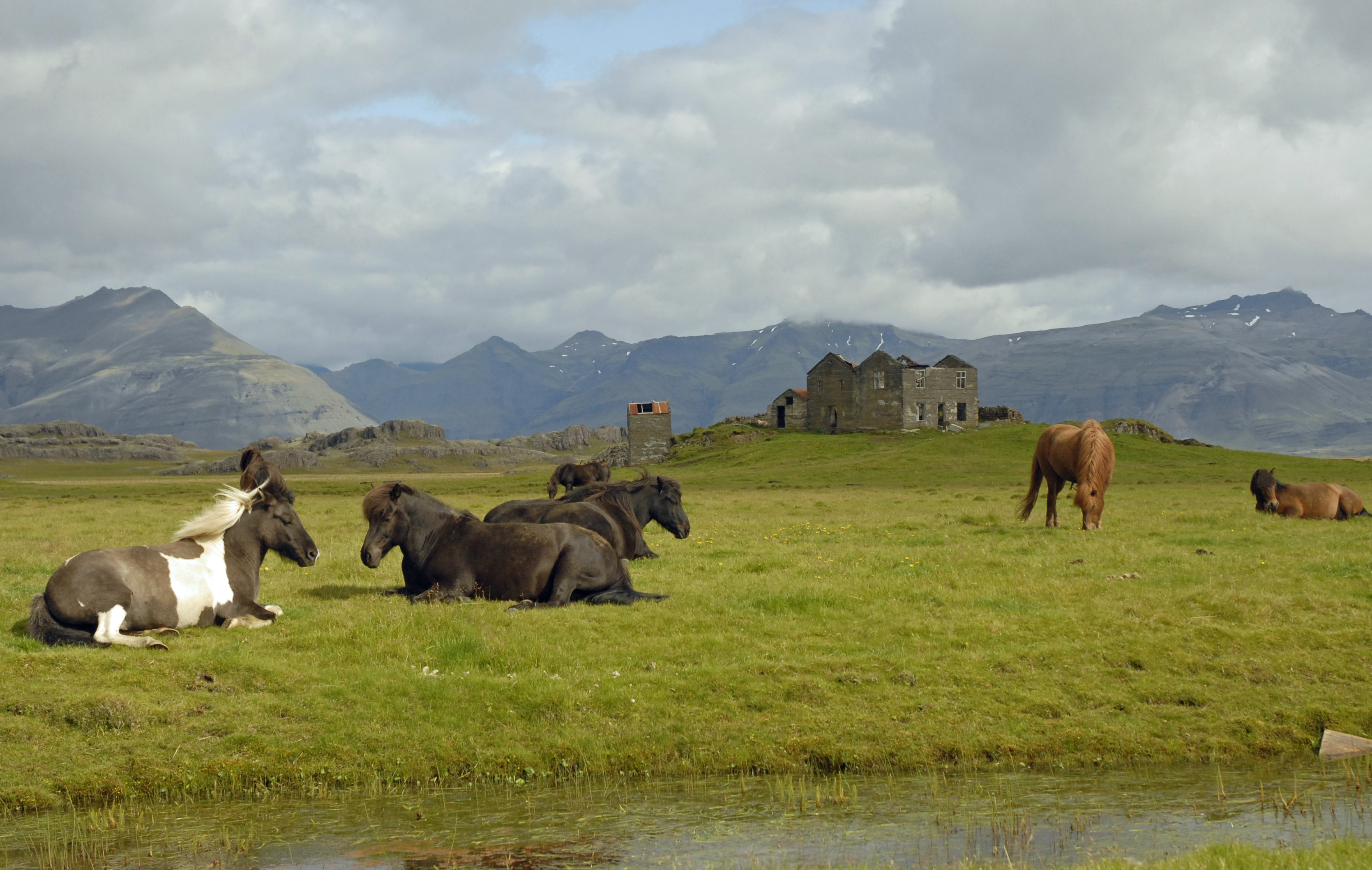 Icelandic Horse. Near Lake Hop, north Iceland.